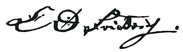 autograph of the painter Caspar David Friedrich